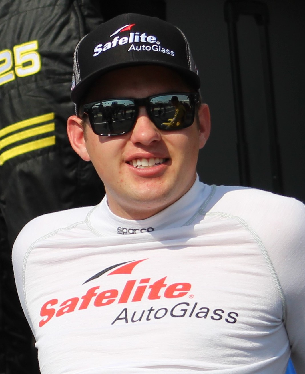 Kyle Busch Motorsports teammates Harrison Burton, Noah Gragson, and Todd Gilliland talking before an event at Dover International Speedway in 2018